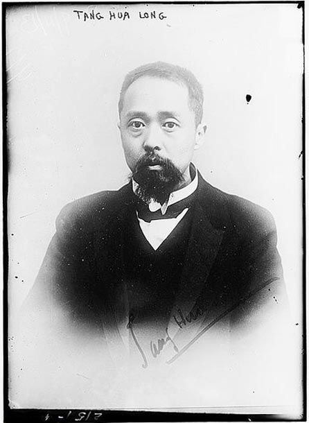 Tang Hualong(1874 - 1918)